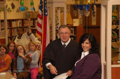 Judge D